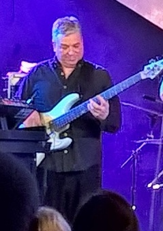 Laurence Cottle performing live with Don Airey Band.